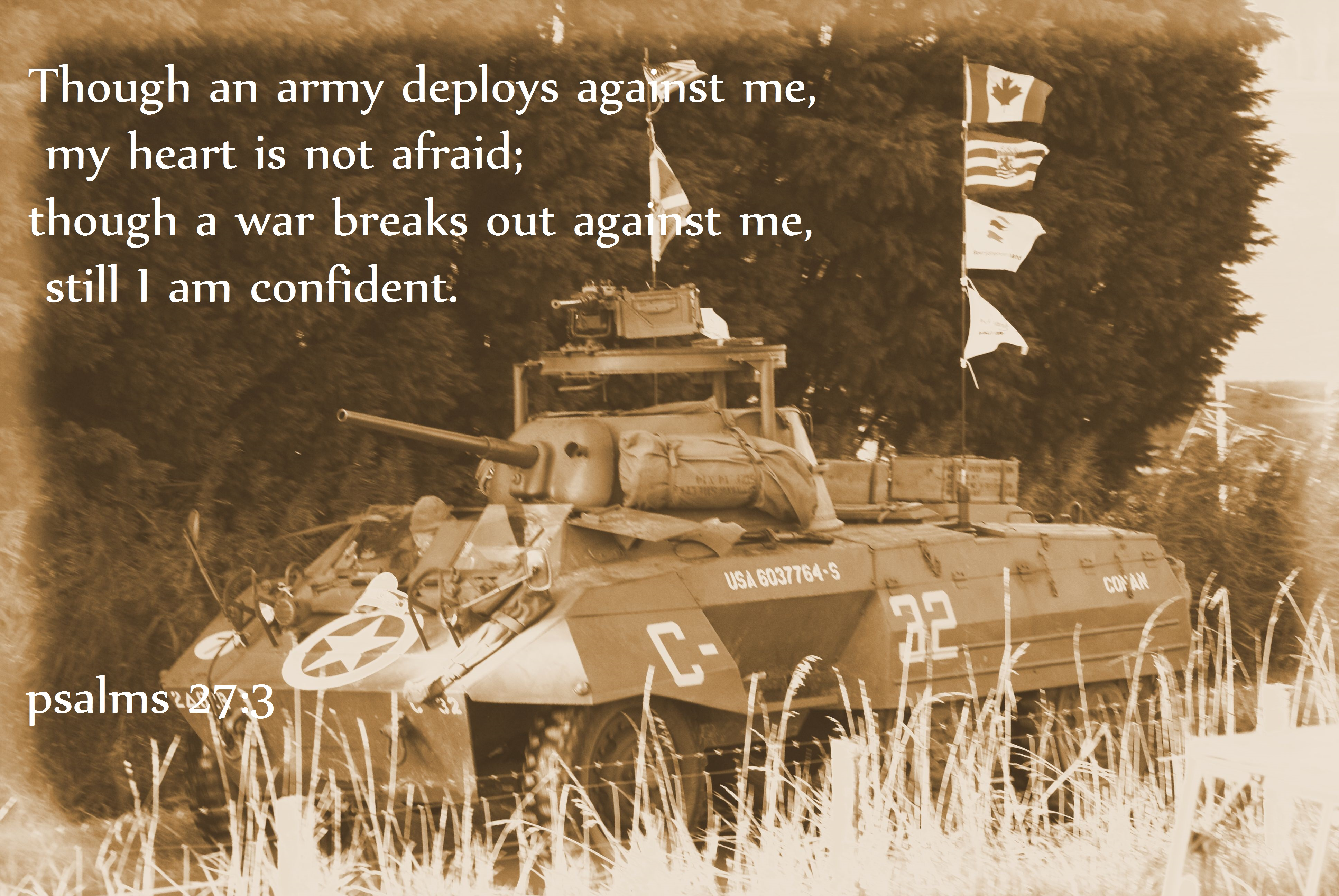 Psalm 27:3